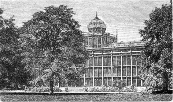 Pfaueninsel (isle of peacocks) near Berlin. The "Palmenhaus" (house of palmtrees) with cupola.